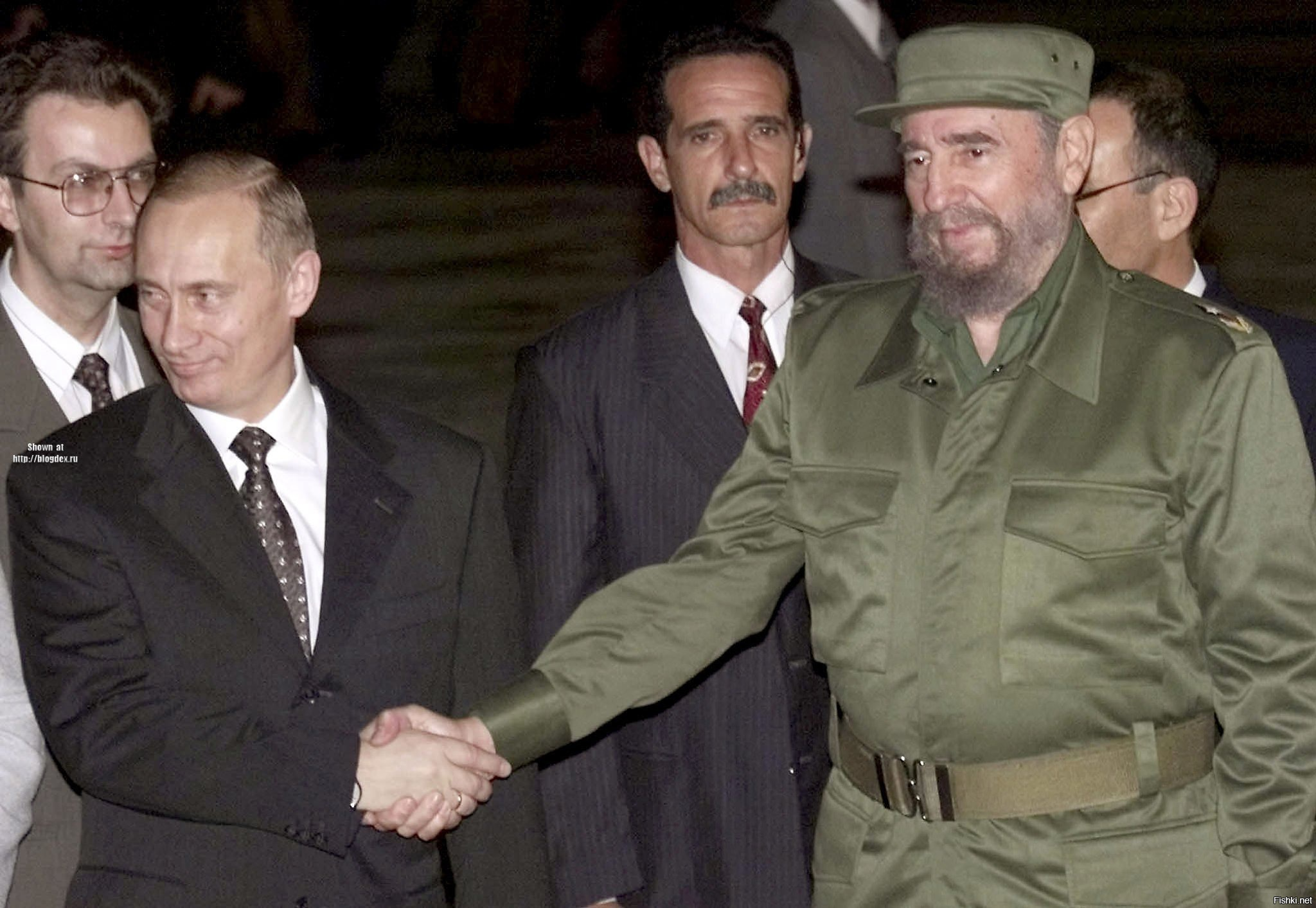 HAVANA. President Vladimir Putin with Cuban leader Fidel Castro during a welcoming ceremony at the airport.